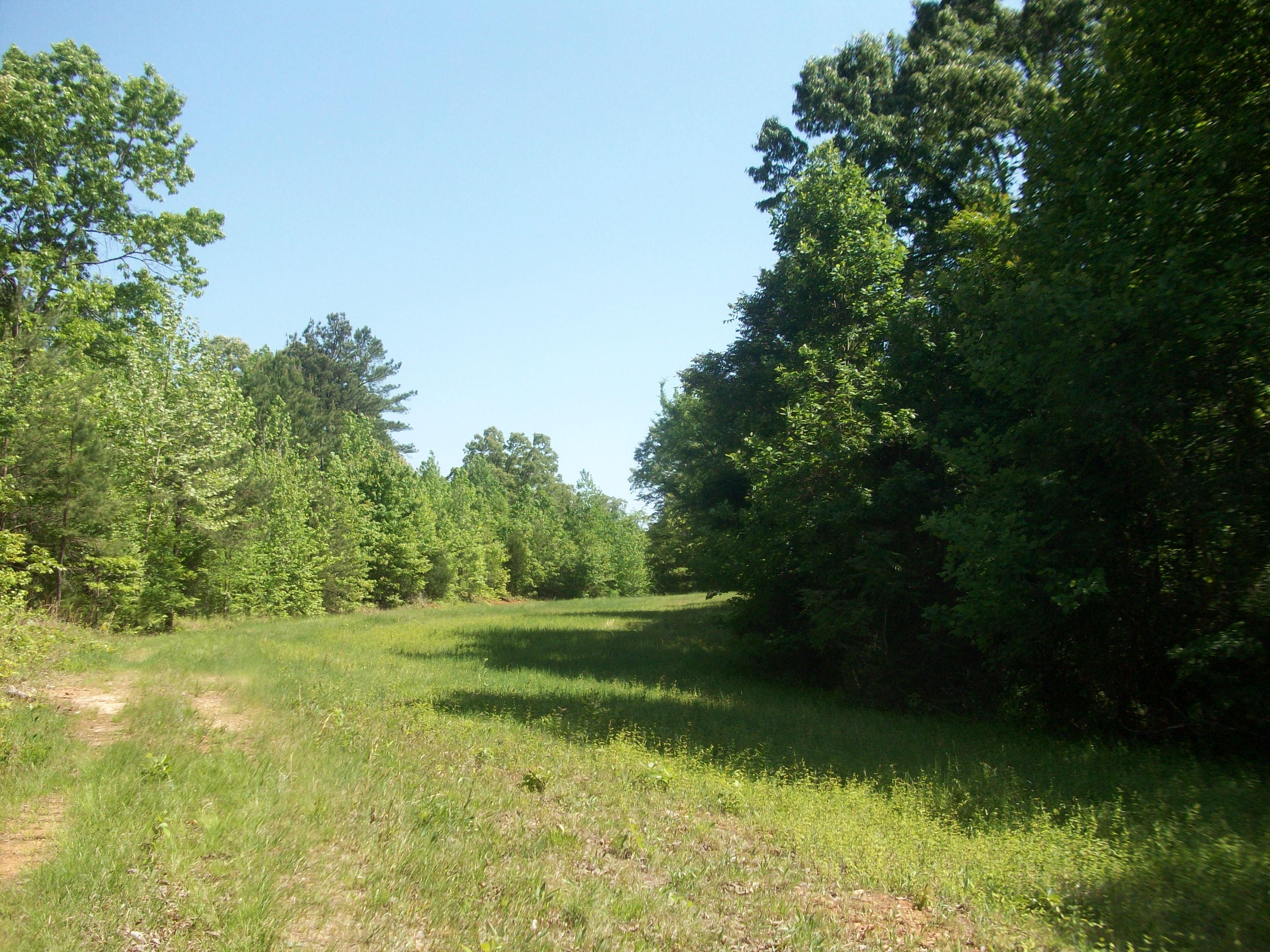 View of the access trail headed towards the entrance to the James Ross Wildlife Reservation